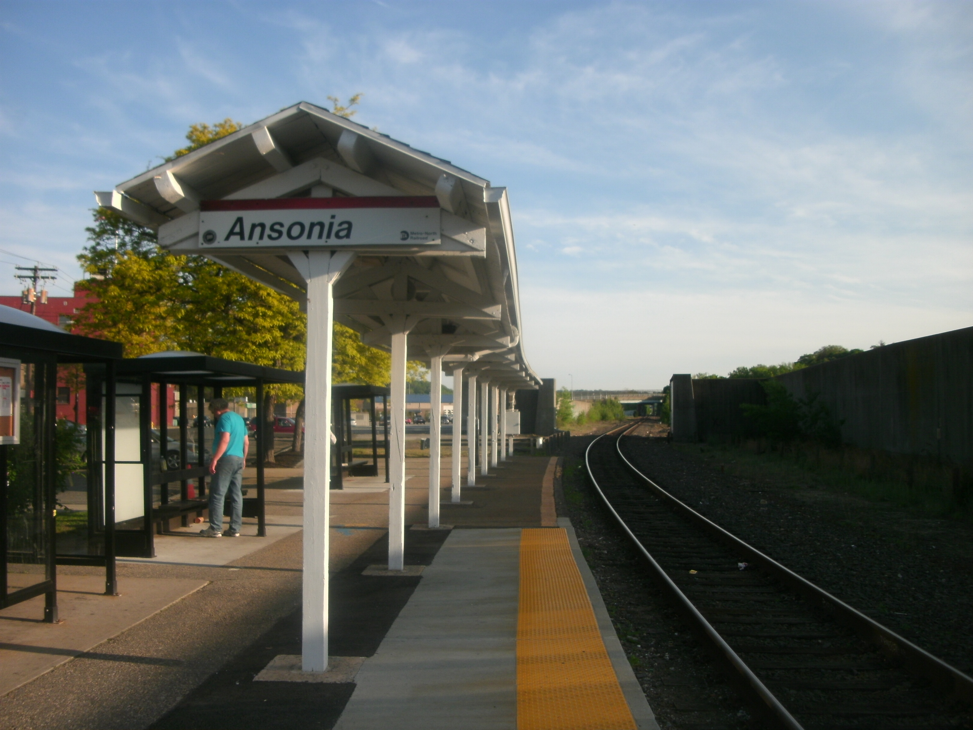 The Ansonia Station on Metro-North's Waterbury Branch, as seen from the northern end of the platform.